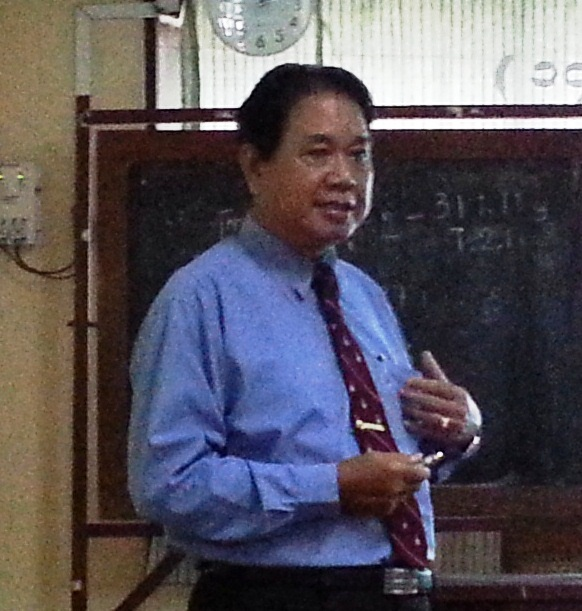 Dr. Myint Maung Maung (Burmese: မြင့်မောင်မောင်) is an obstetrician and gynecologist.